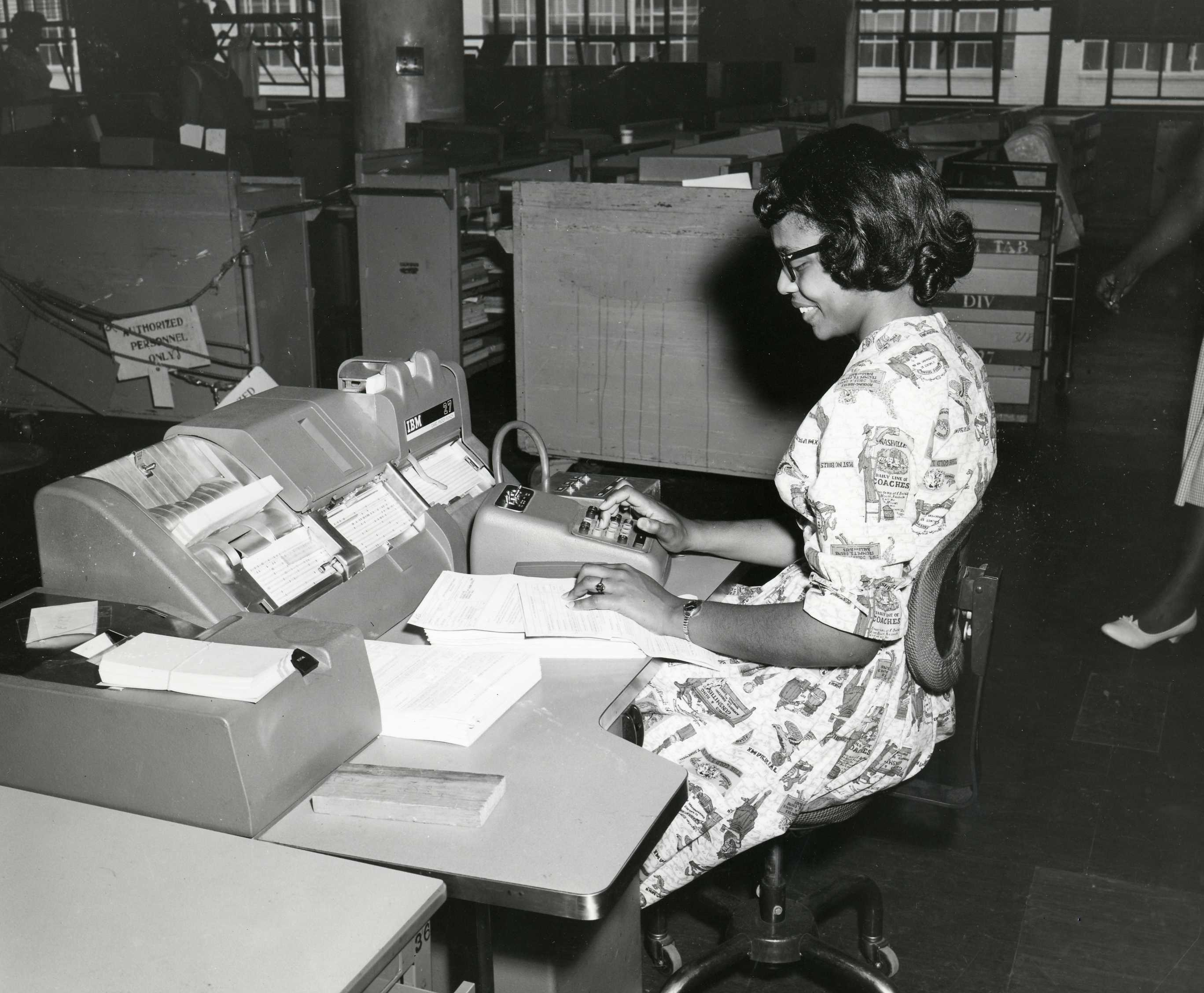 Early Census Machines - Section 2 (1960s)